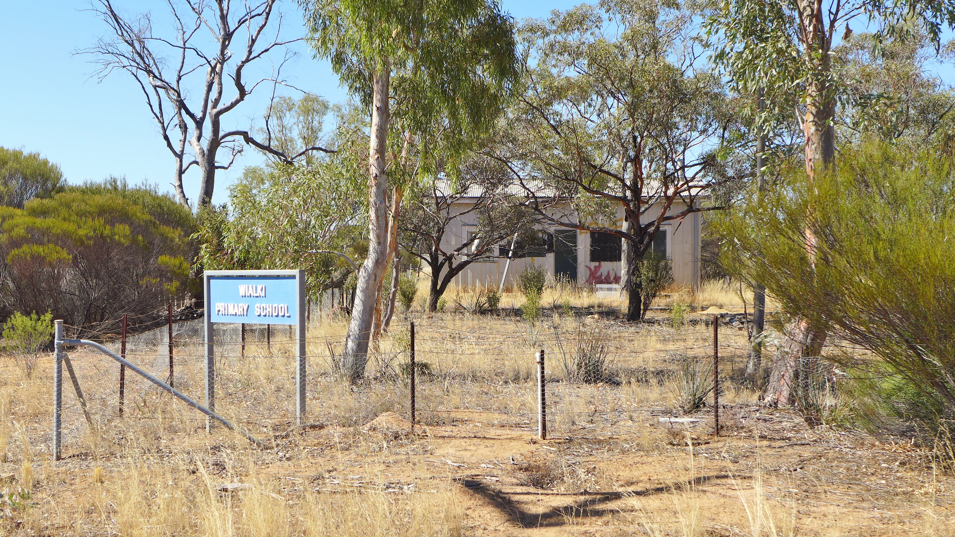 View of the former primary school at Wialki, Western Australia.